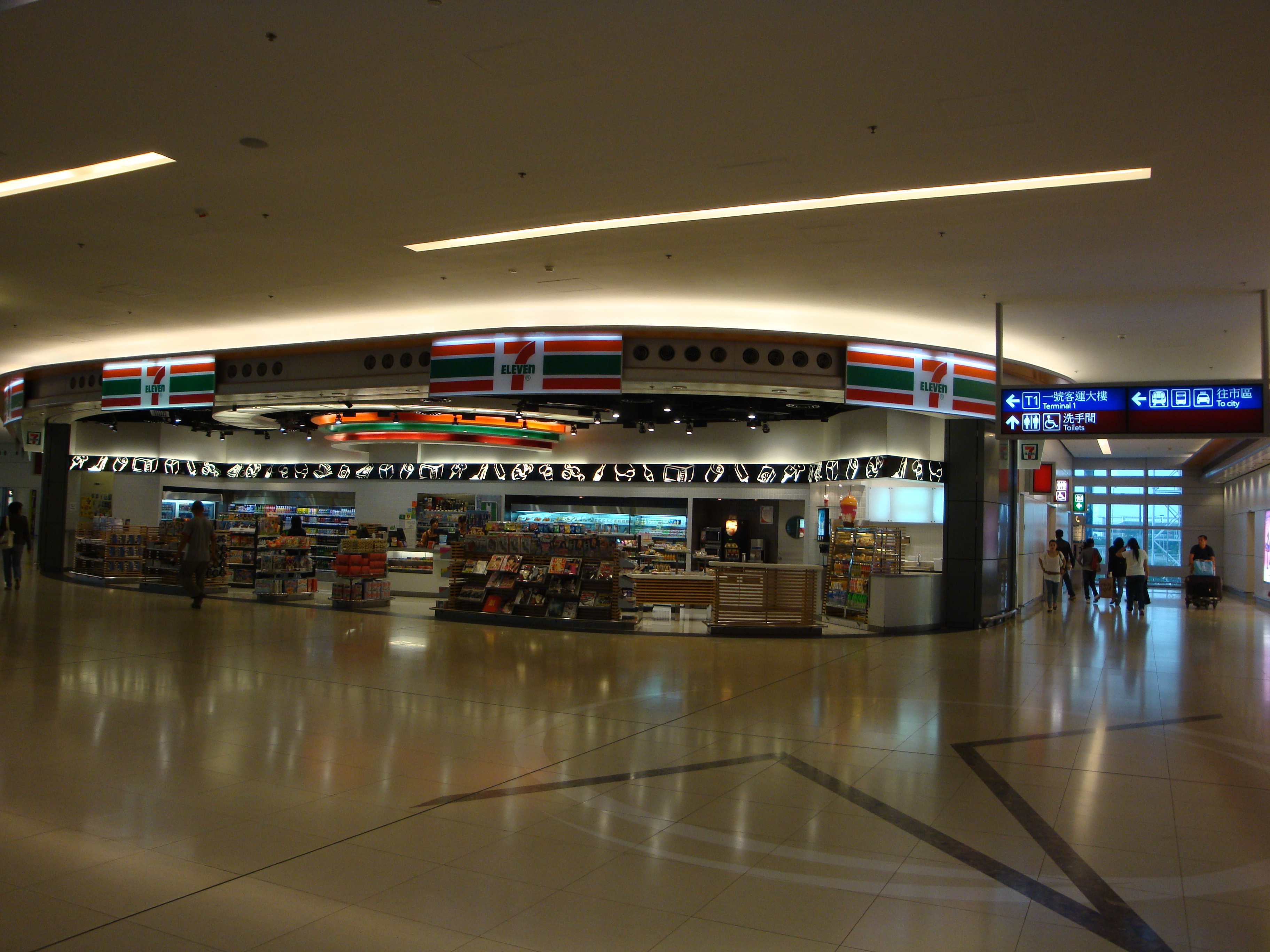 7-Eleven at Hong Kong International Airport